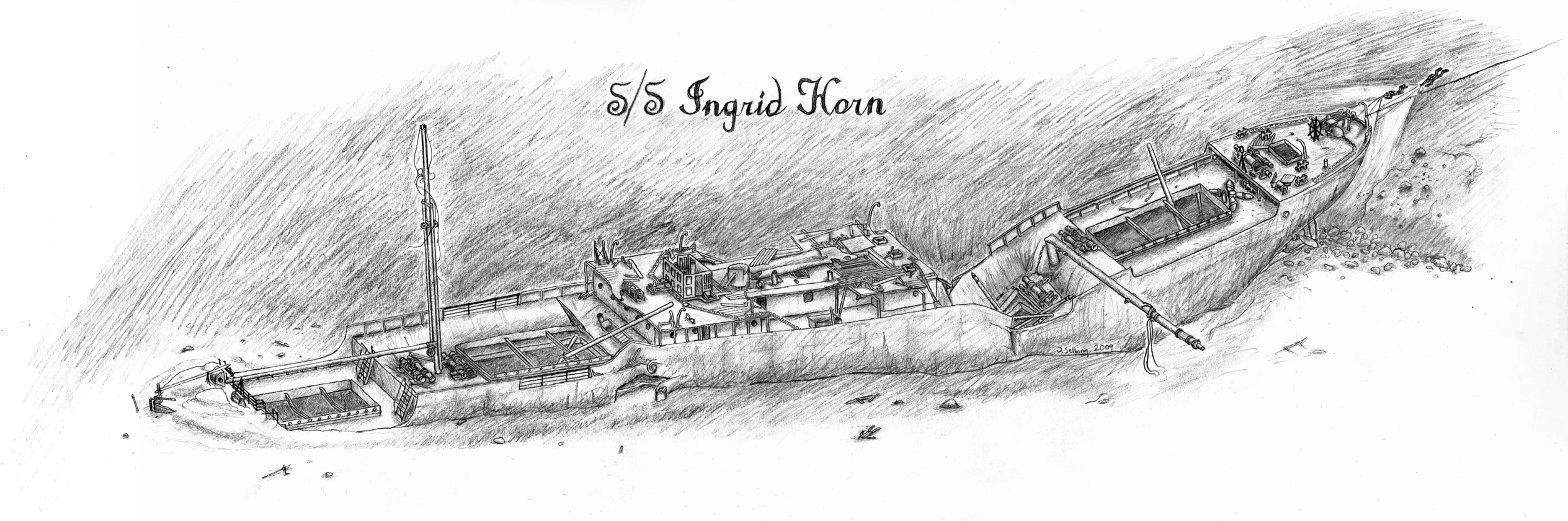 Detailed drawing of the wreck of the 2,039 GRT German steamship Ingrid Horn off Dalarö, Sweden. The drawing is an accurate representation of the shipwreck around 2009, and is based on a large number of dives, sonar images, photographies and a ship blueprint.